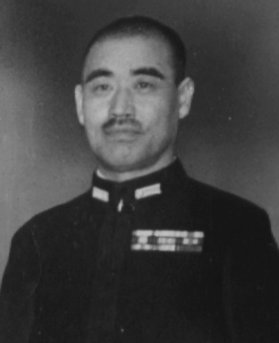 Hikojiro Suga